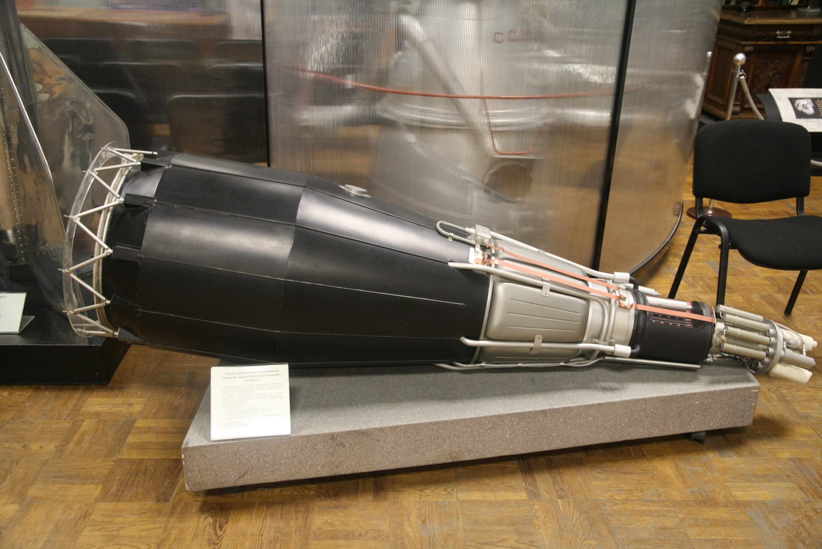 TOPAZ nuclear reactor (scaled- down mockup). Two similar ones were flown on Soviet satellites Kosmos 1818 and 1867. Reactor parameters: length 4,6 meters, weight 980 kg, thermal output 150 kW, electric output 5 kW. Photographed in Polytechnic museum, Moscow.